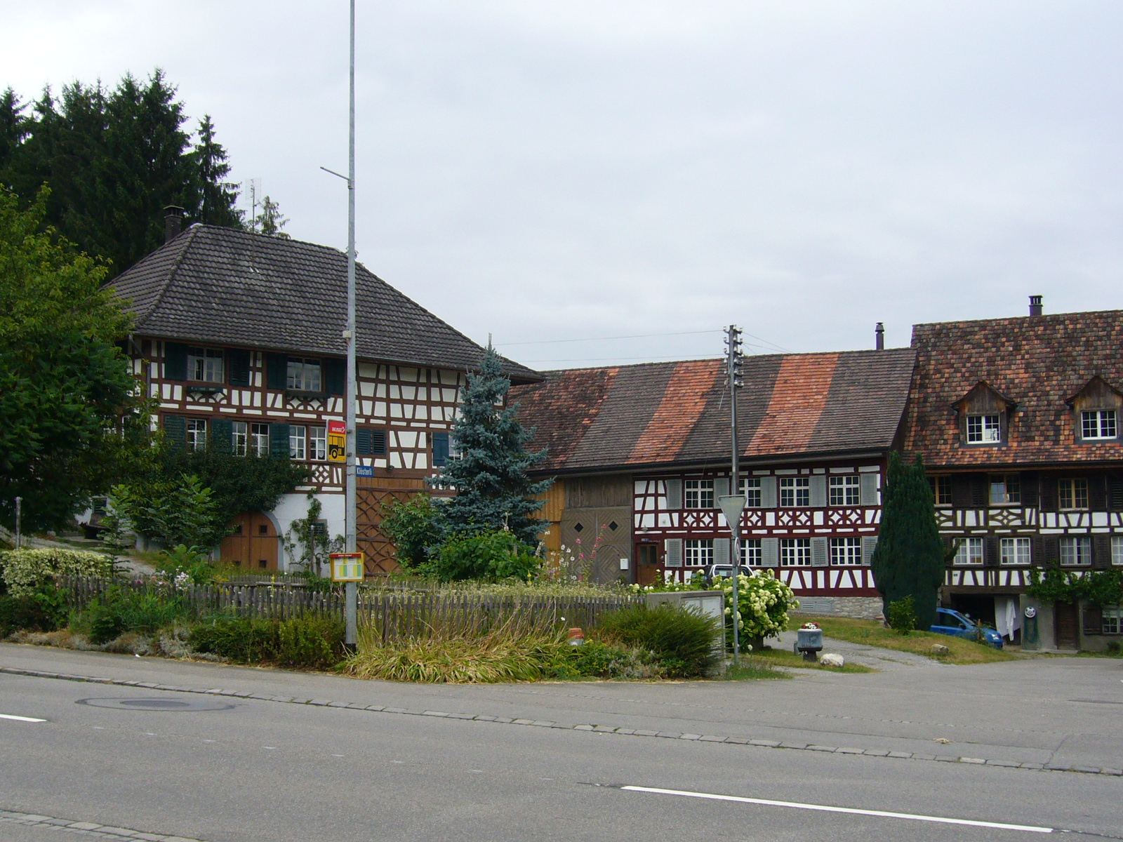 Old houses in Amlikon, canton Thurgau, Switzerland. Picture taken by Peter Berger, August 1, 2006.